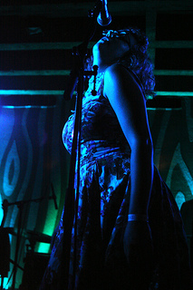 Portrait of Sallie Ford